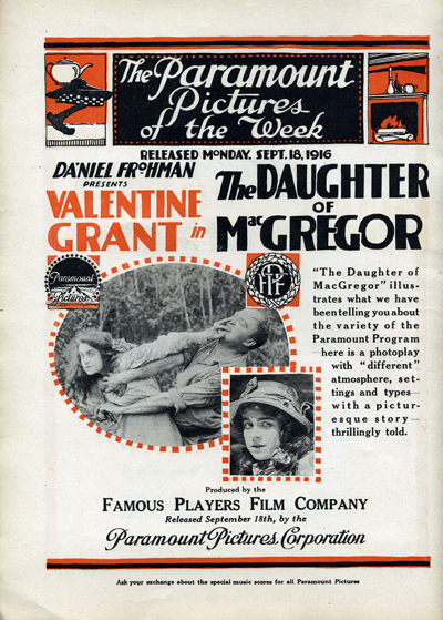 Advertising of The Daughter of MacGregor.